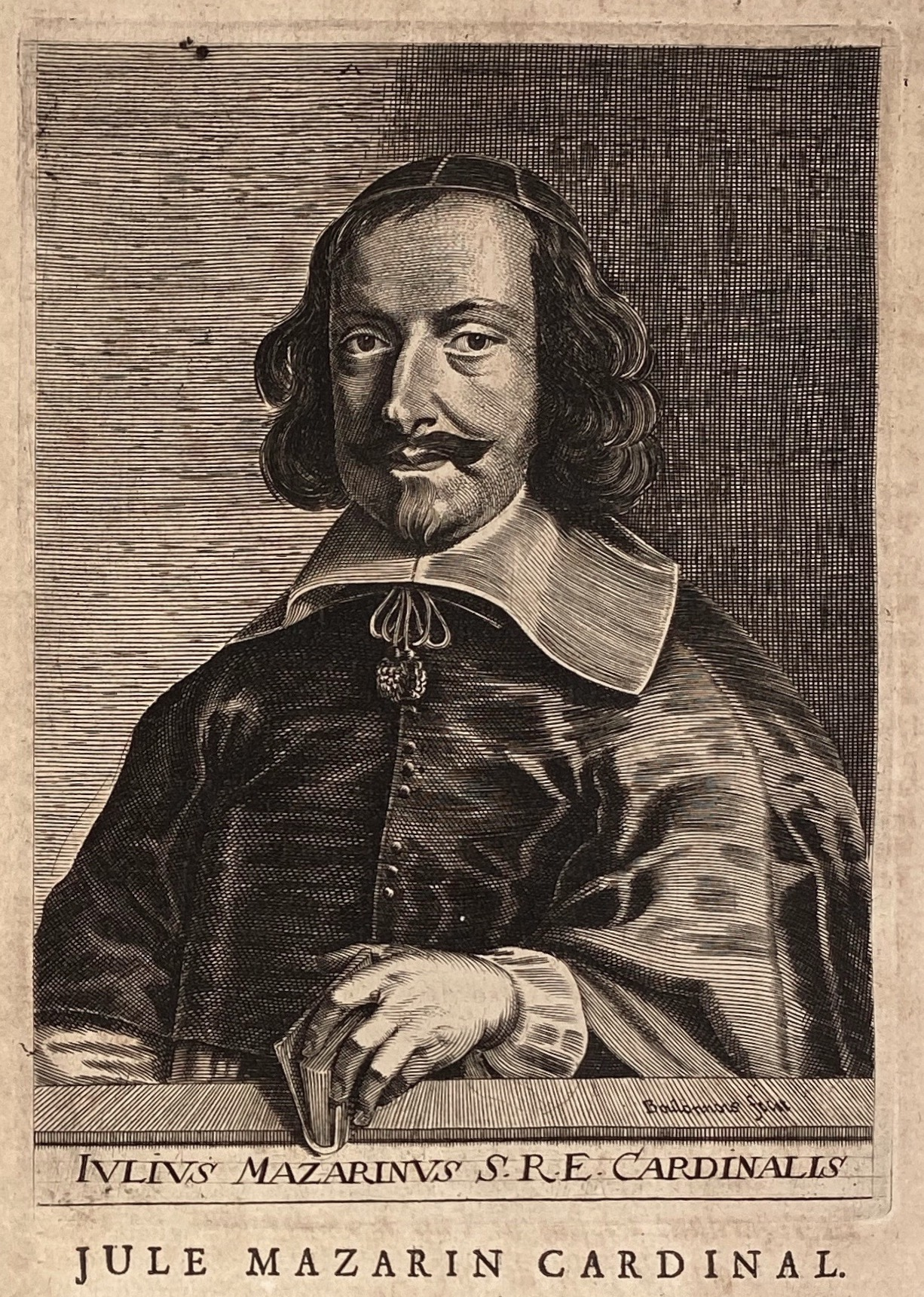 Half-length portrait of Jules Mazarin, cardinal, facing to the left. Engraved by Esme de Boulonois. Isaac Bullart. Académie Des Sciences Et Des Arts. - Amsterdam: Elzevier, 1682.